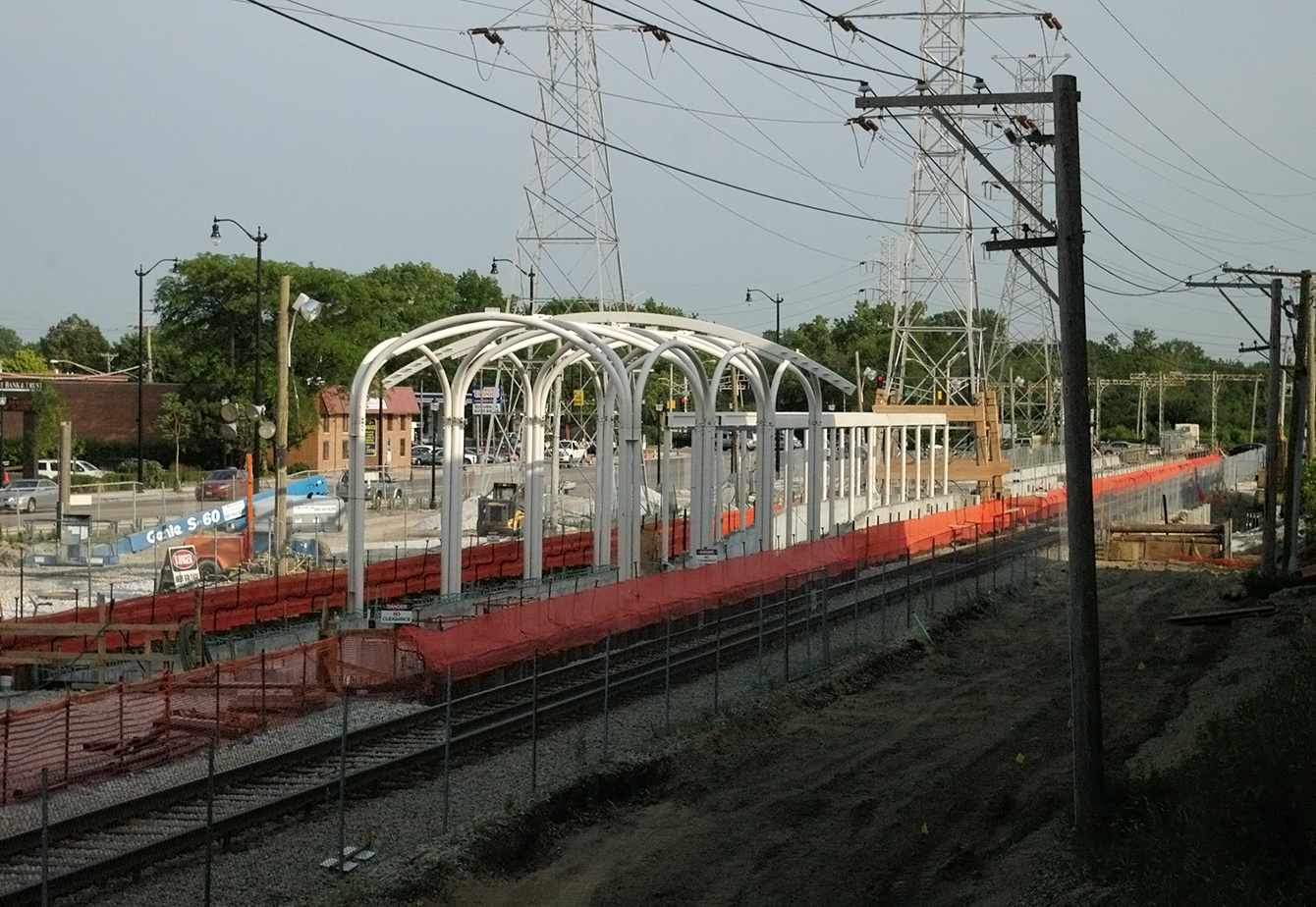 Construction of the Oakton-Skokie station. The entrance to the Skokie Blvd./Searle Parkway is seen being built.